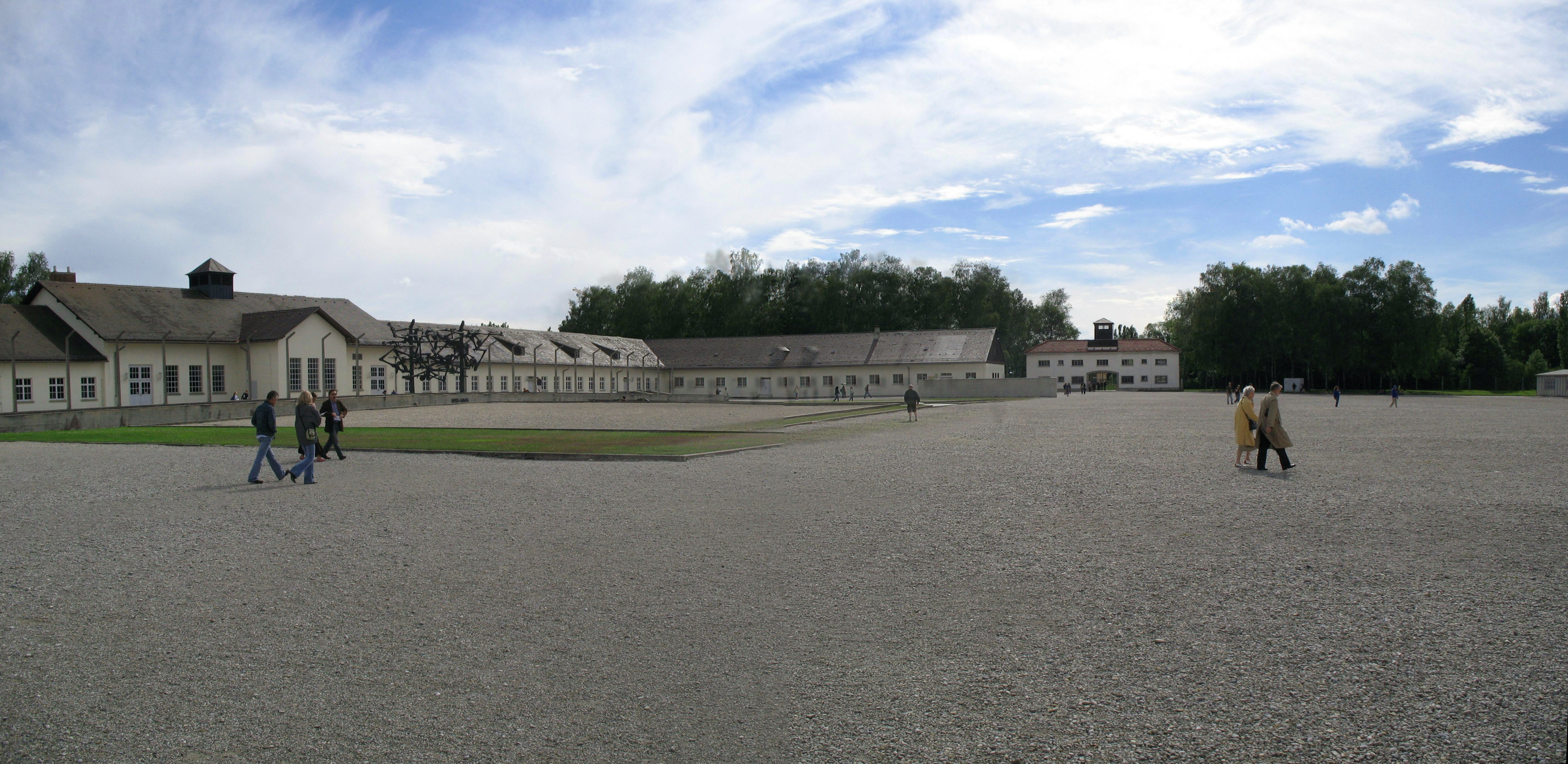 Farm buildings and the roll call square, Dachau concentration camp, Dachau, Germany